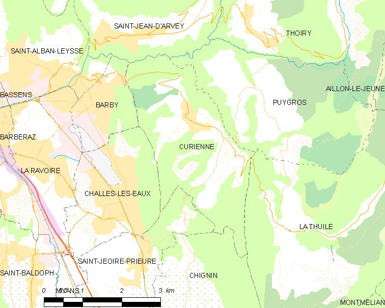 Map of French municipality